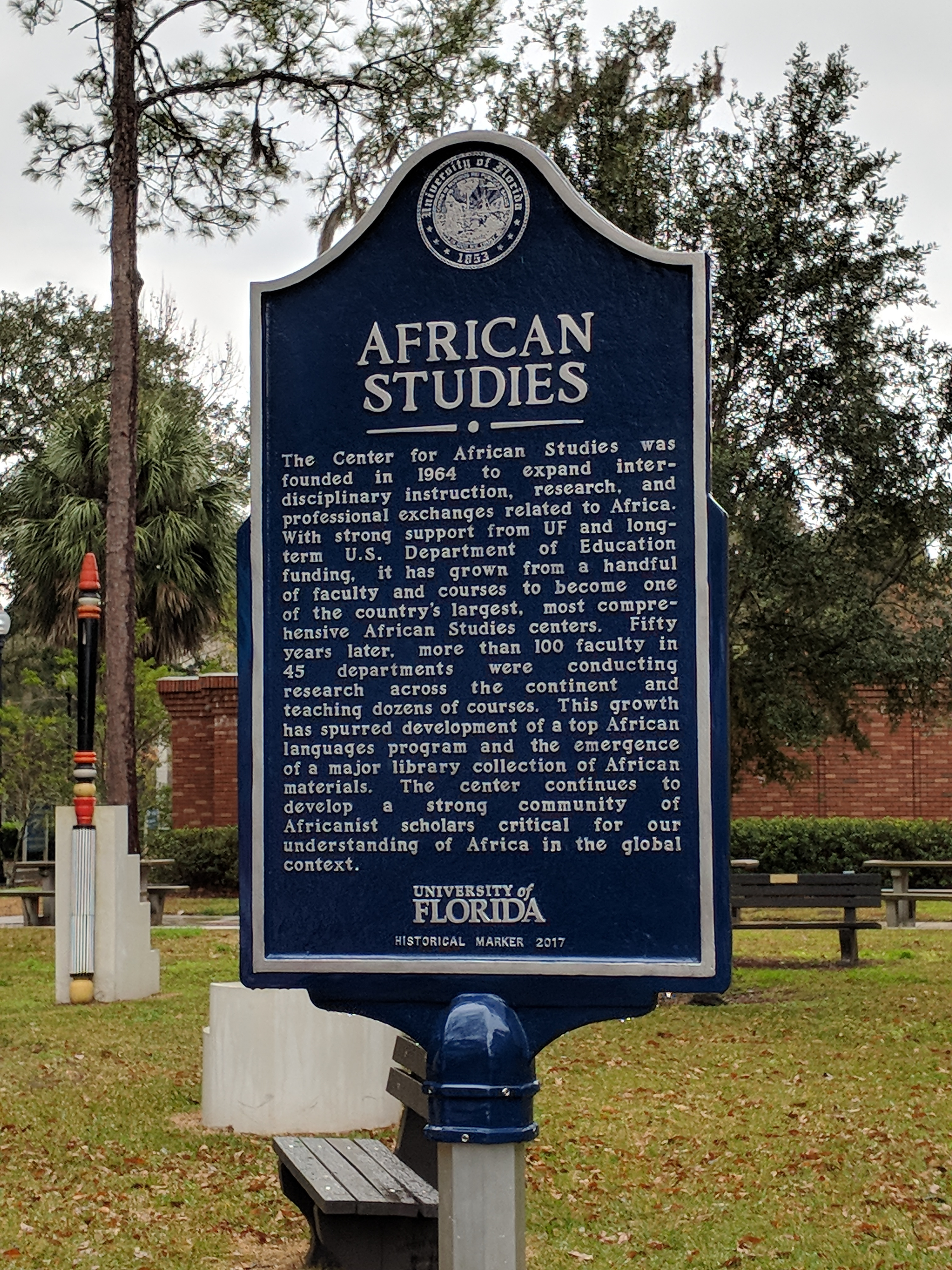 This is the marker established for the Center for African Studies at the University of Florida in Grinter Lawn.